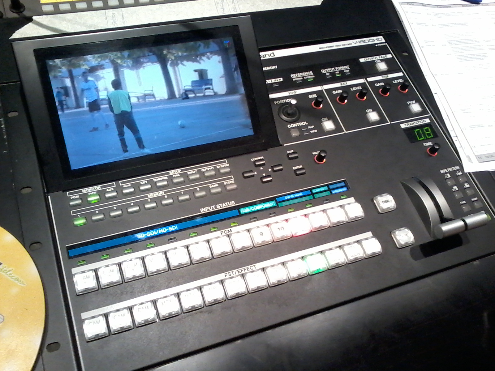 Roland V-1800HD video switcher